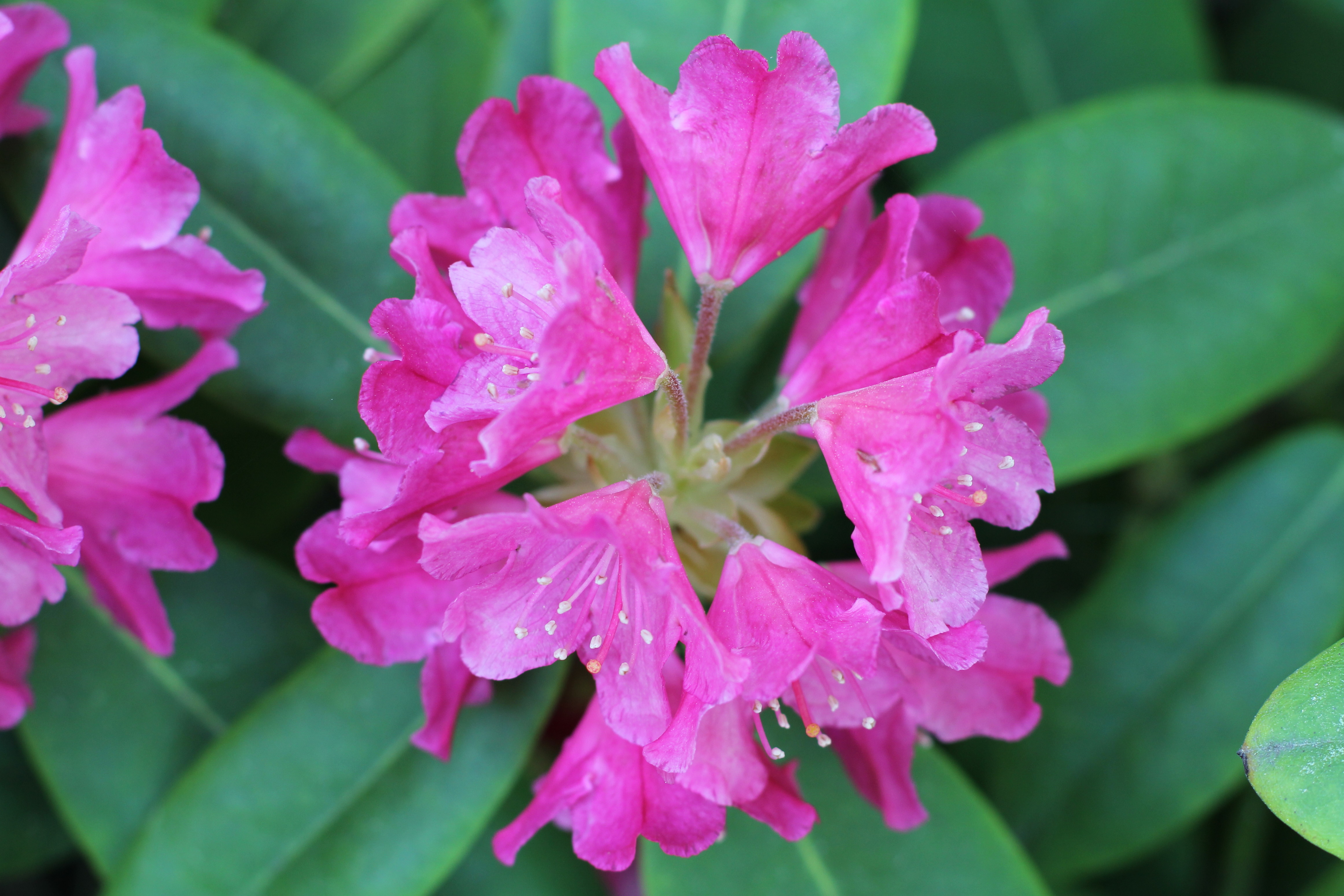 Rhododendron 'Raisa'. Helsinki, Finland. -Rhododendron brachycarpum subsp. tigerstedtii × hybrid of R. brachycarpum.